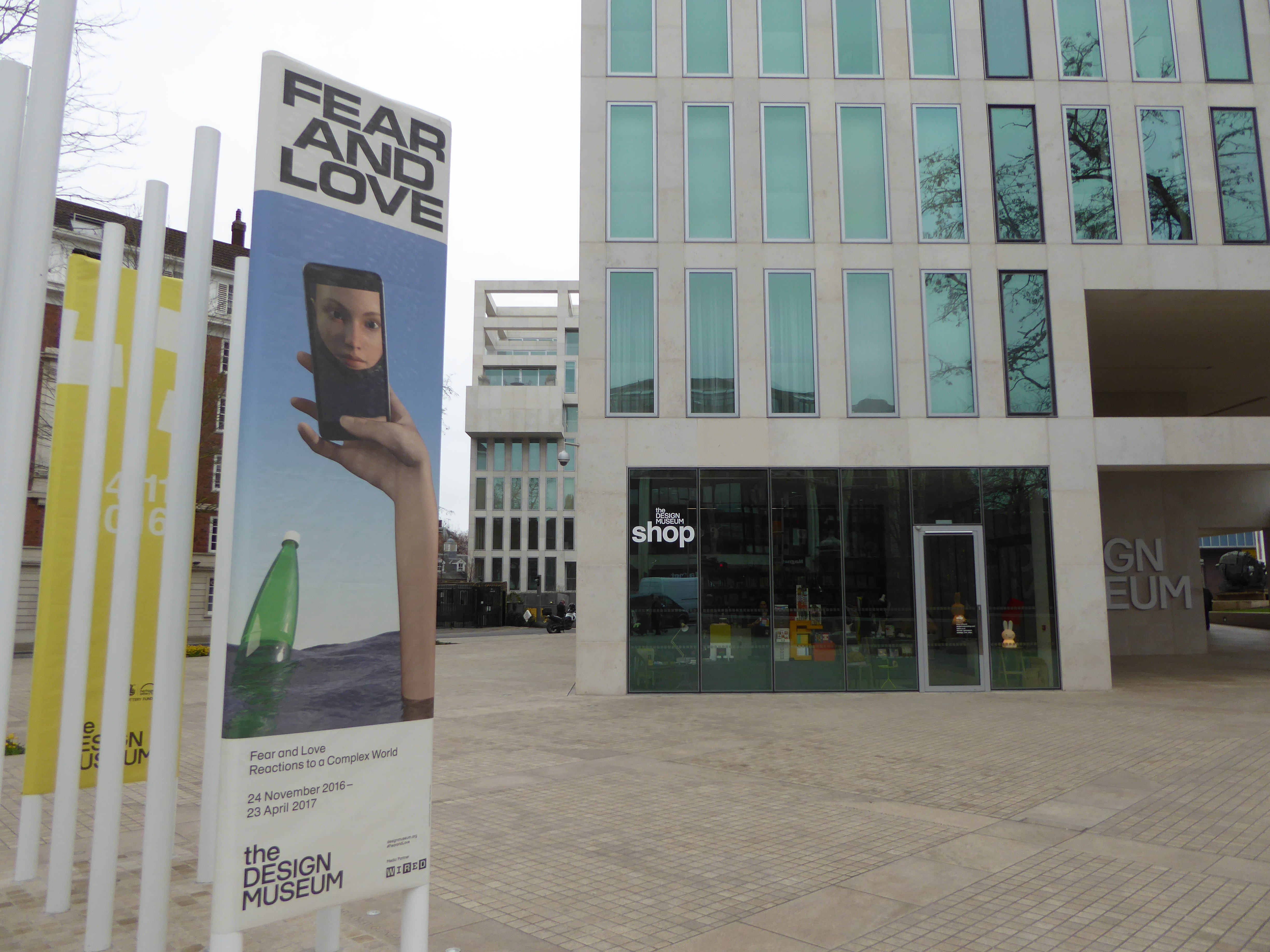 Design Museum, Kensington High Street, London, England, March 2017